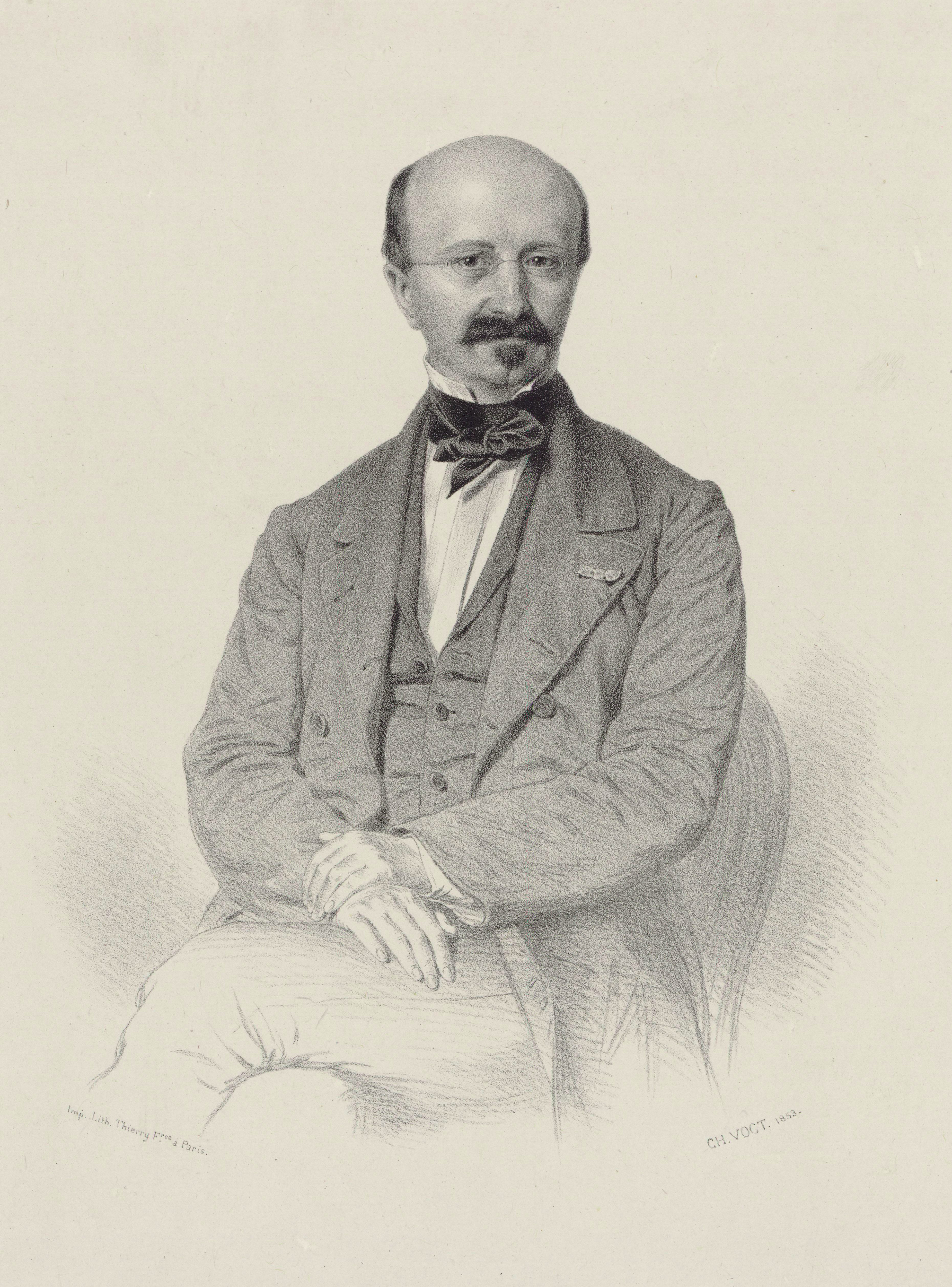 Louis Niedermeyer (1802-1861), French composer and pedagogue